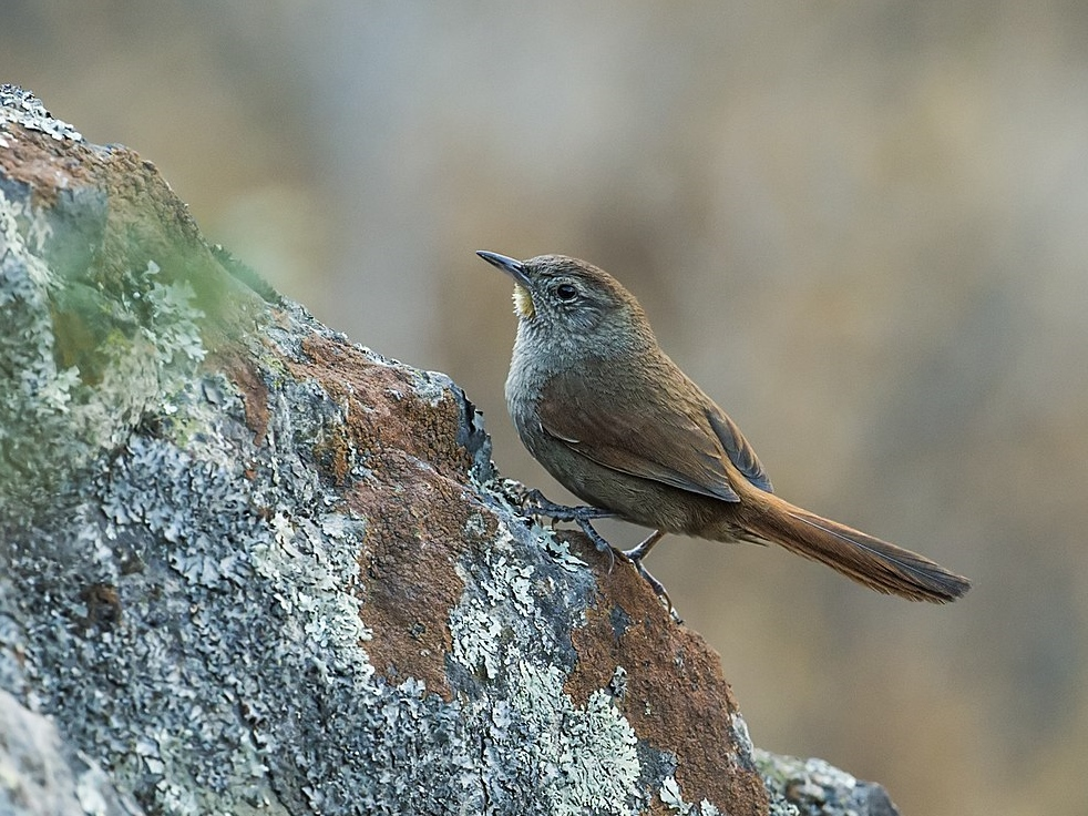 Canyon Canastero from San Pedro de Casta, Lima Region, Peru.